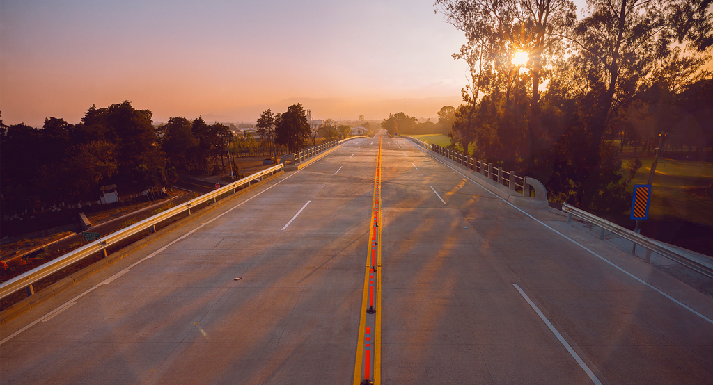 Via Alterna del Sur en Villa Nueva